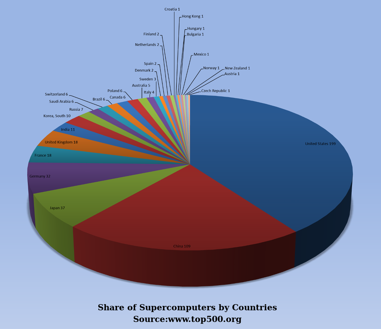 Pie Chart of Share of Supercomputers among countries from Top500 Supercomputers list as on November 2015